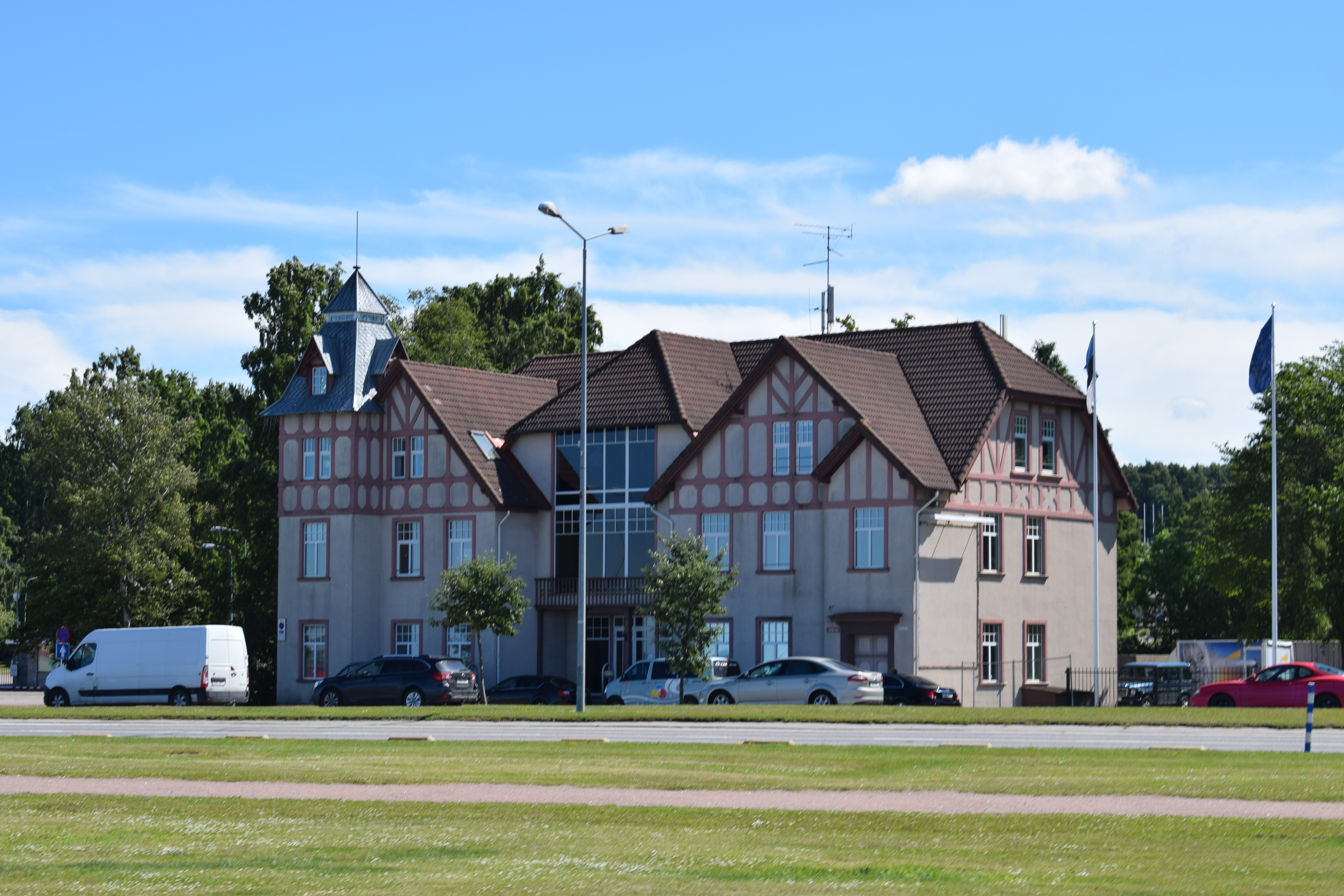 Pirita tee